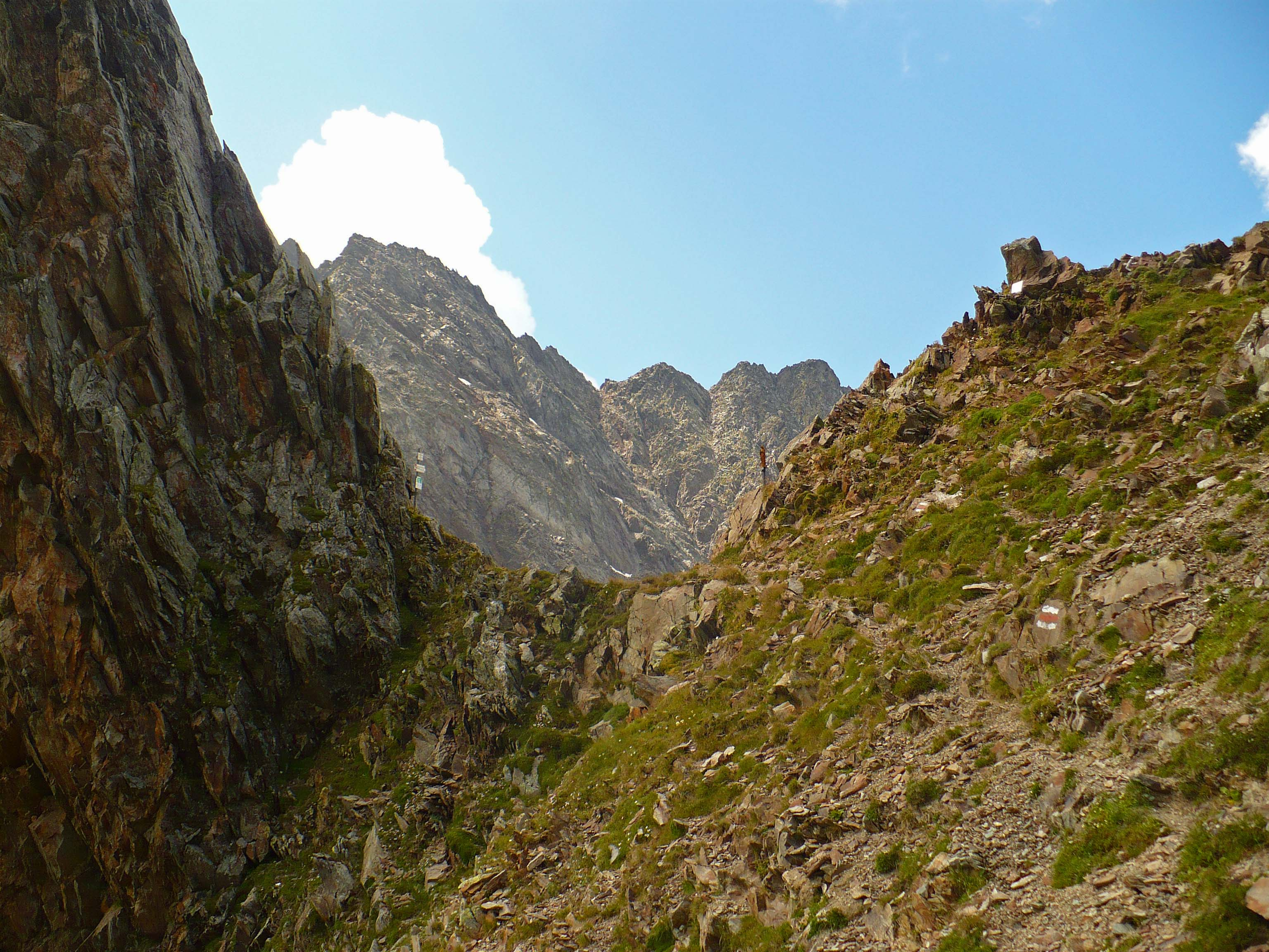 Near the Passo Coca. View towards the Valtellina side